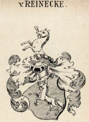 Coat of arms, Family von Reinecke